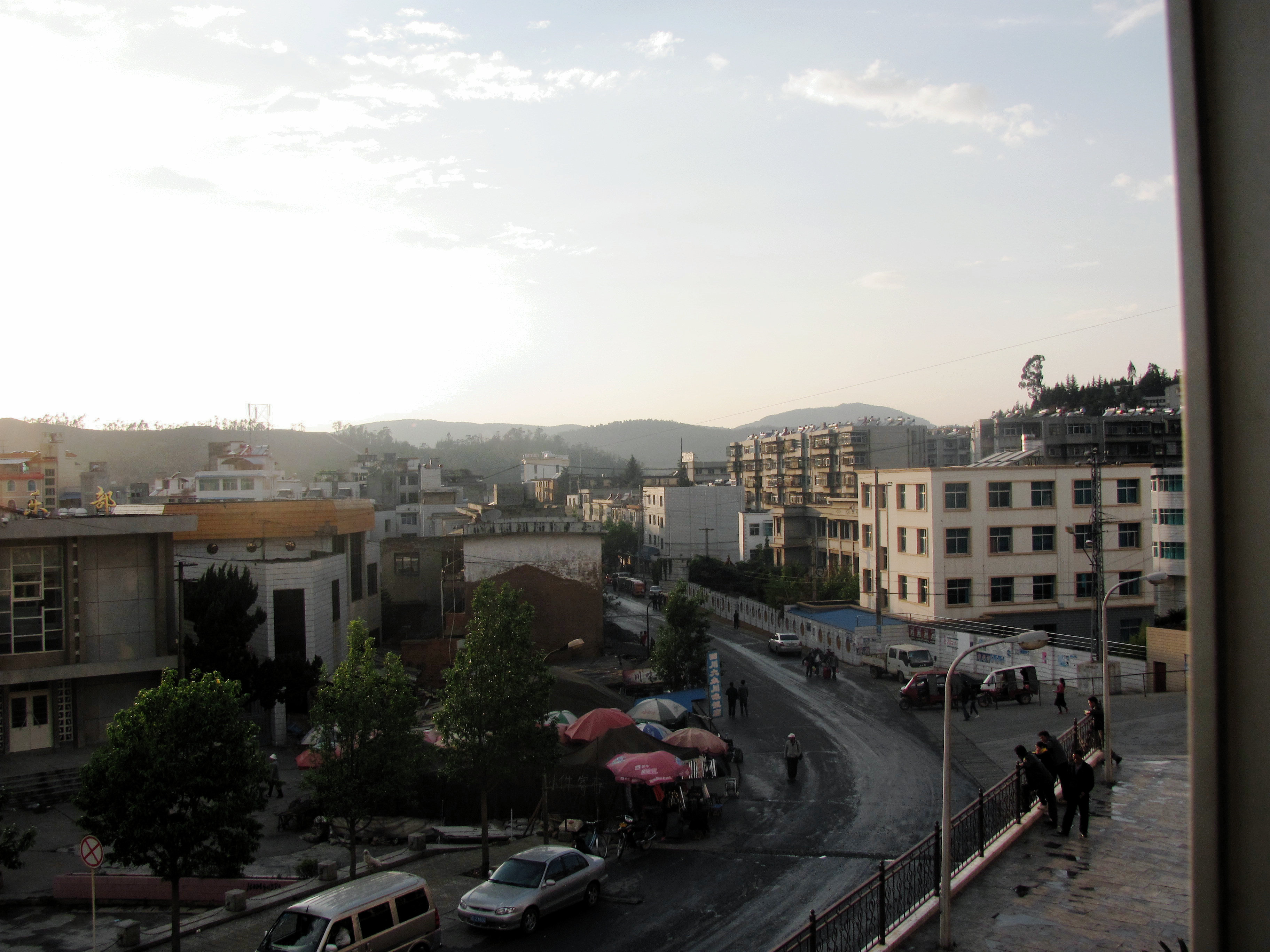 Guangtong, Chuxiong, Yunnan